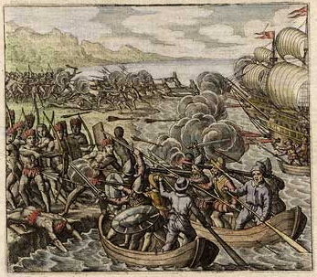 Amerigo Vespucci leads landing craft in an attack on the natives of the island of "Ity" (location uncertain, poss. Bermuda), on his first journey to the New World (1497). As described by Vespucci in his 1505 Letter to Soderini (description). Engraving from c.1592 by Theodor de Bry (Flemish, 1528-1598). Watercolor version of File:Vespucci attacks natives of the island of Ity.jpg